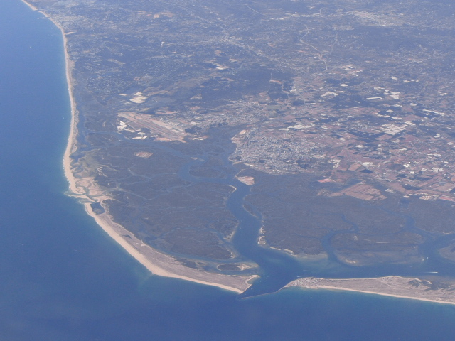 Coast Algarve, Faro, Portugal, 2015